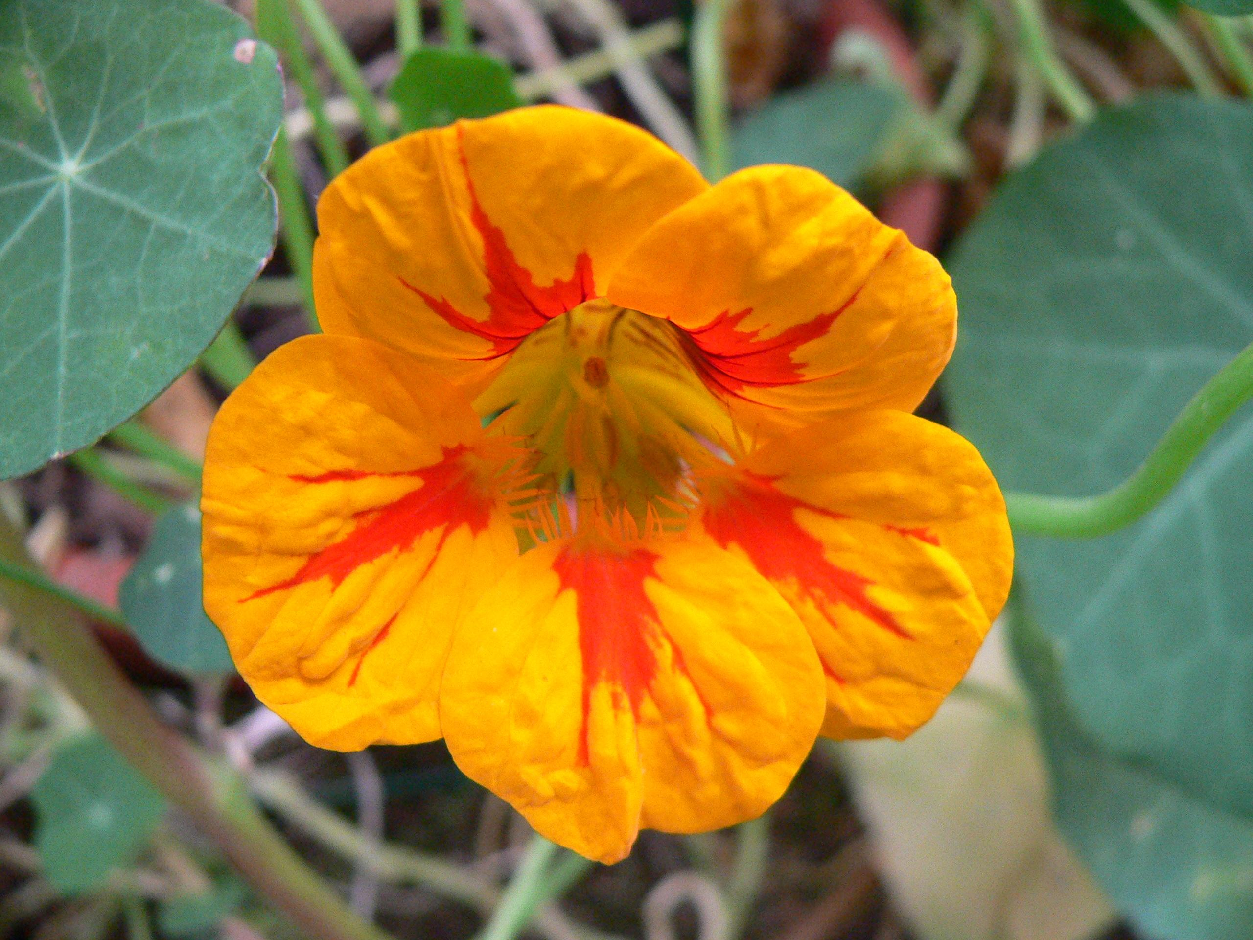 blossoms of Nasturtium tropaeolum